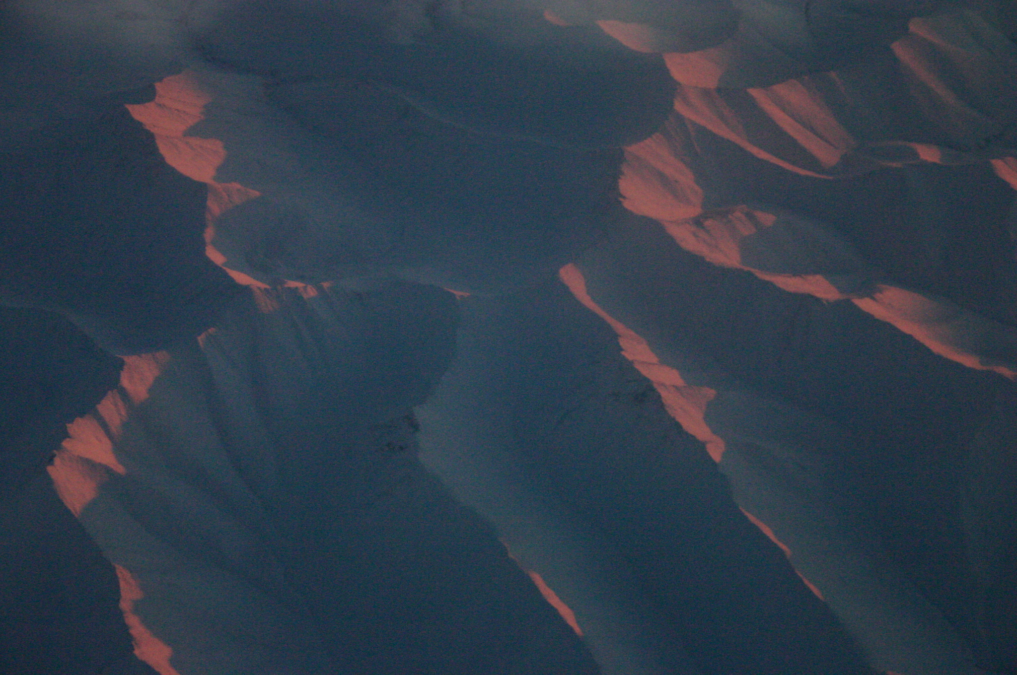 A gorgeous aerial view of sunrise over the mountaintop in Siberia. The alpine glow looks like burning flames on top of each mountain.